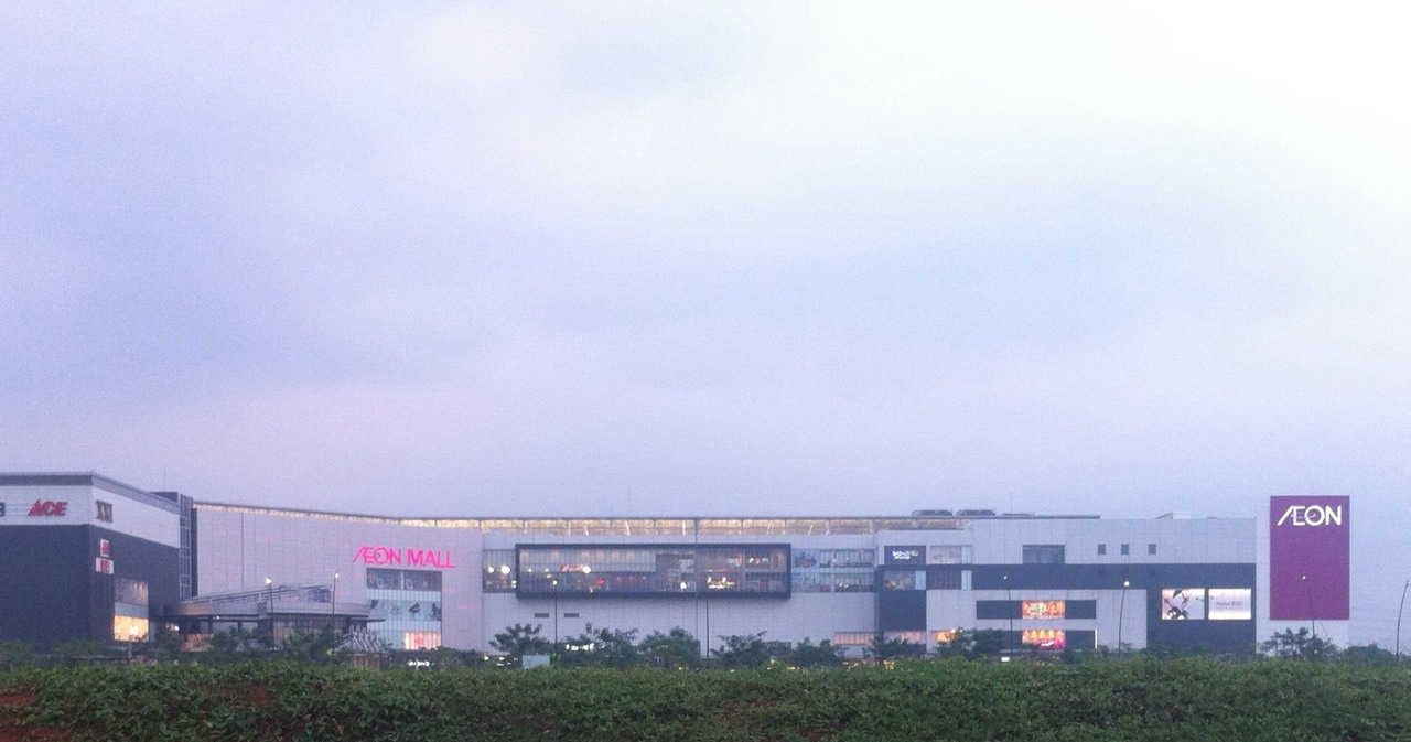 Aeon Mall in Bumi Serpong Damai